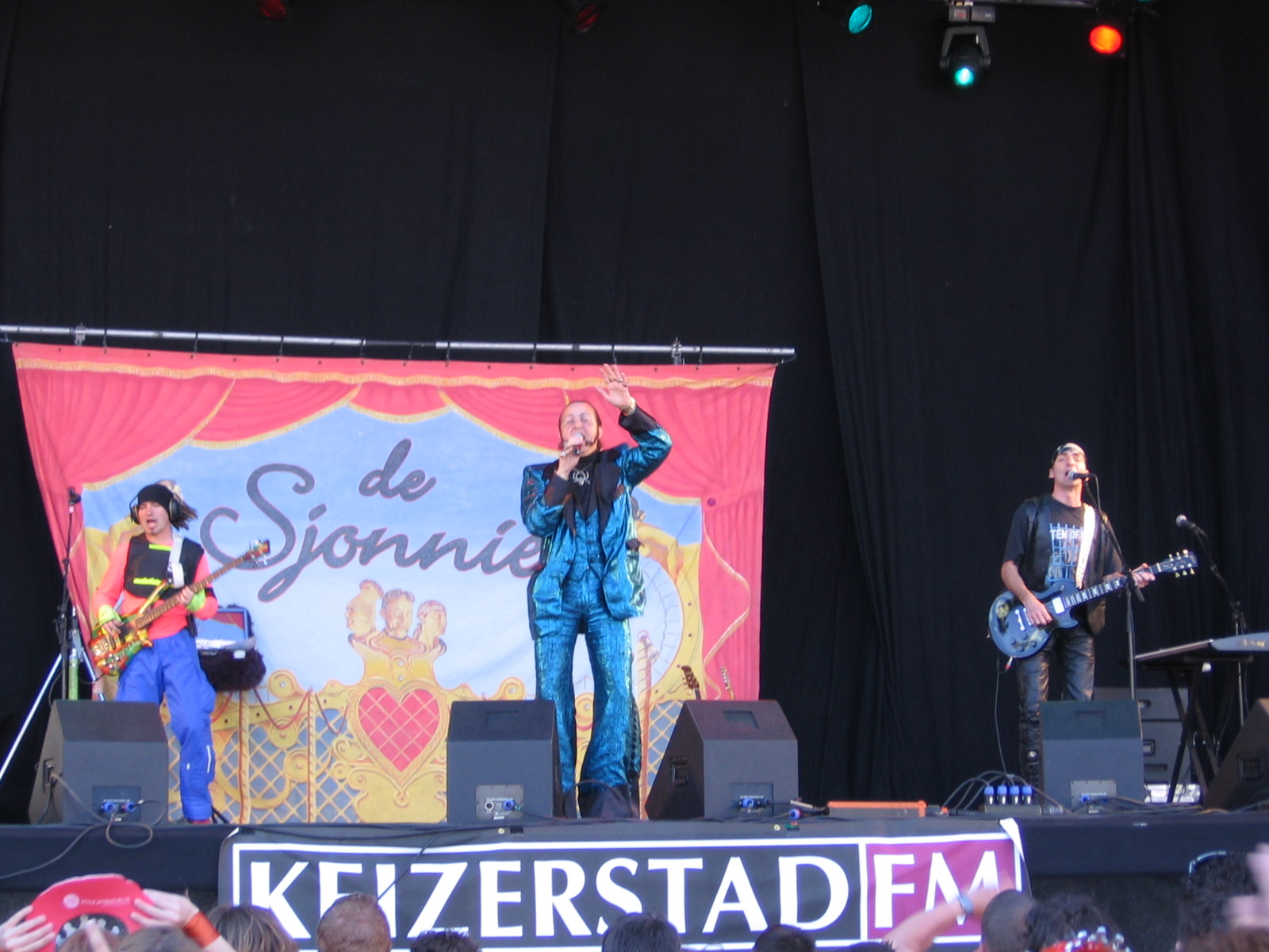 at the their concert on Queens Day, Arnhem